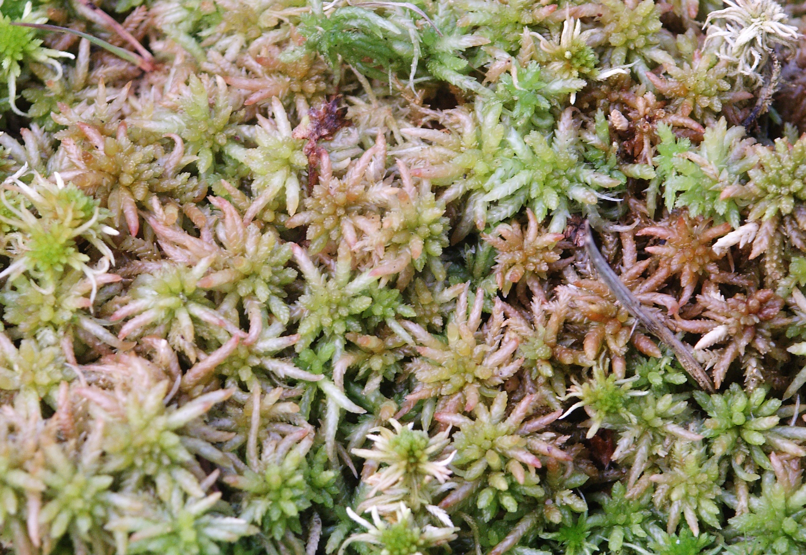 Sphagnum palustre, Virngrund, Germany